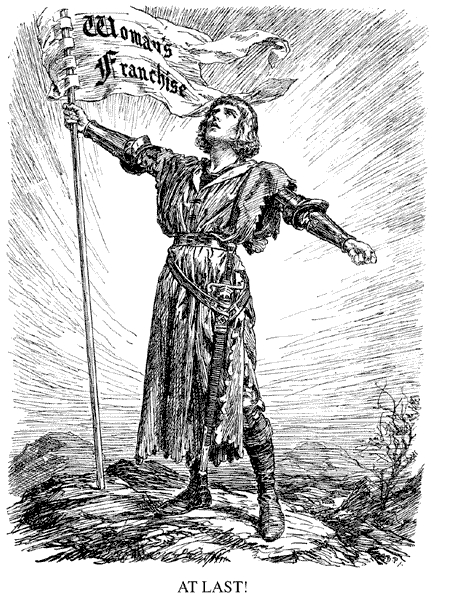 A drawing of John Bernard Partridge, published in the british newspaper Punch, celebrating the women's right to vote partially obtained with the 'Representation of the People Act 1918'.